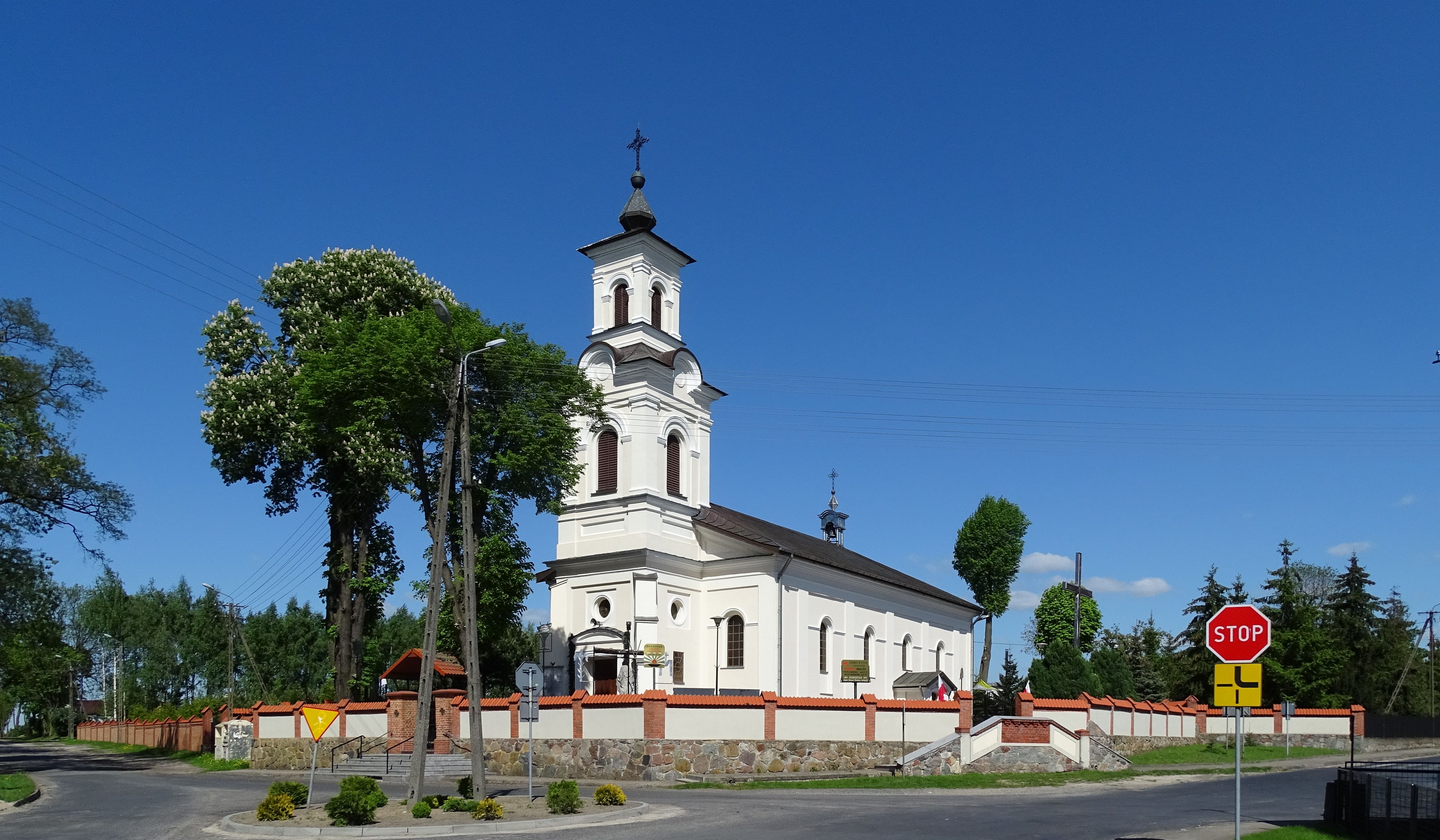 Zaduszniki, Kuyavian-Pomeranian Voivodeship. Parish church from the years 1873-1875.